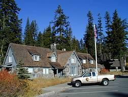 The Crater Lake National Park Aministration Building in the Munson Valley Historic District, Oregon, United States.